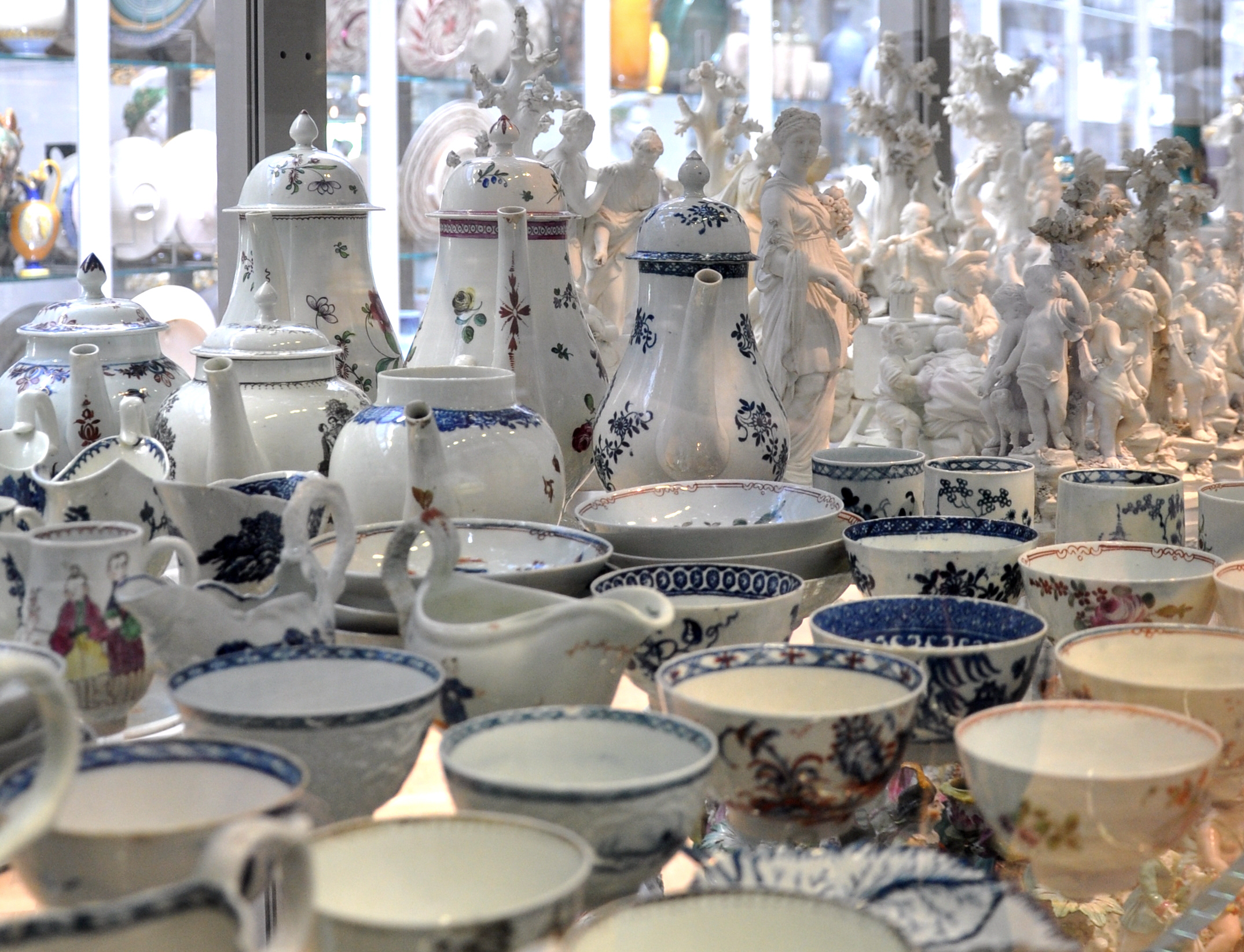 Visible storage, Ceramics department, Victoria and Albert Museum, London